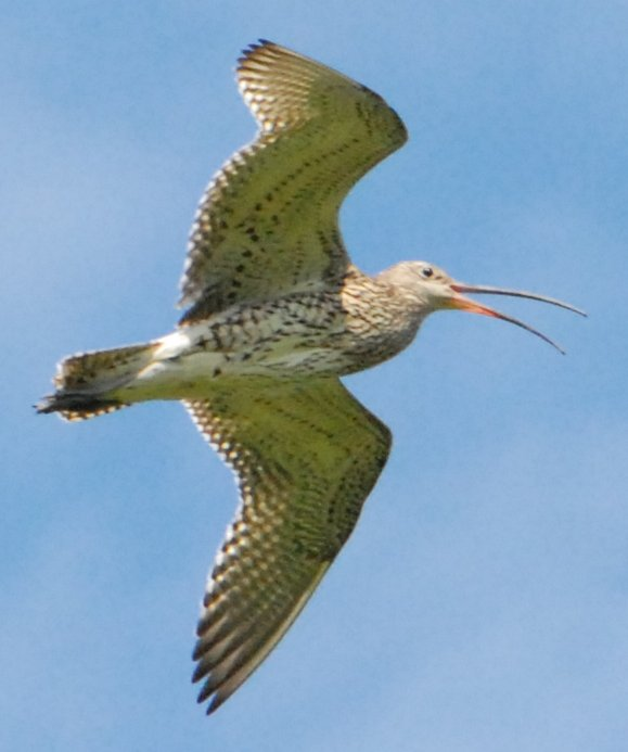 A male Eurasian Curlew (Numenius arquata) in Jyväskylän maalaiskunta, Central Finland.